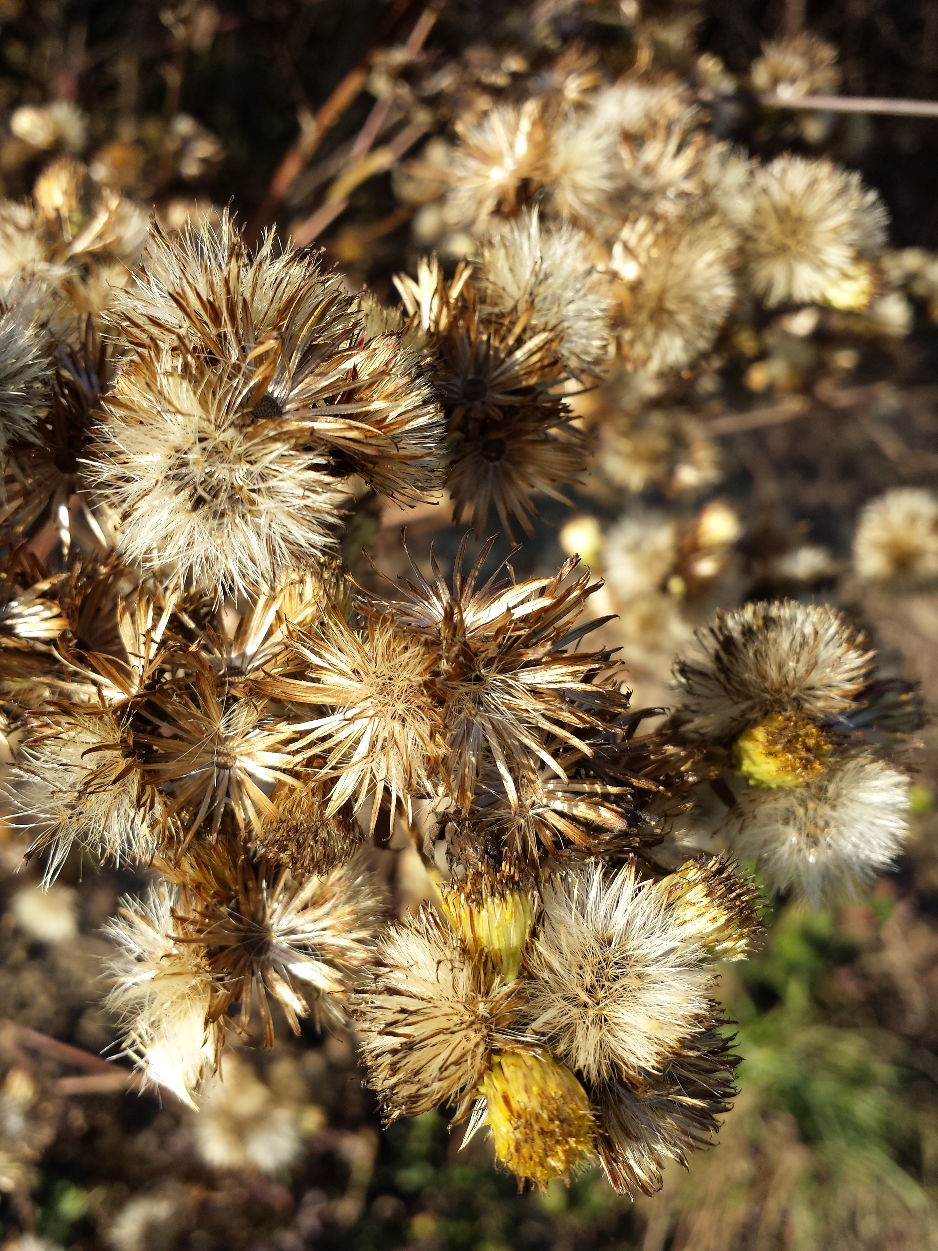 Florescence Taxon: Inula conyzae (sensu Fischer et al. EfÖLS 2008) Location: near Niederhollabrunn, district Korneuburg, Lower Austria - ca. 330 m a.s.l. Habitat: border of a shrubbery